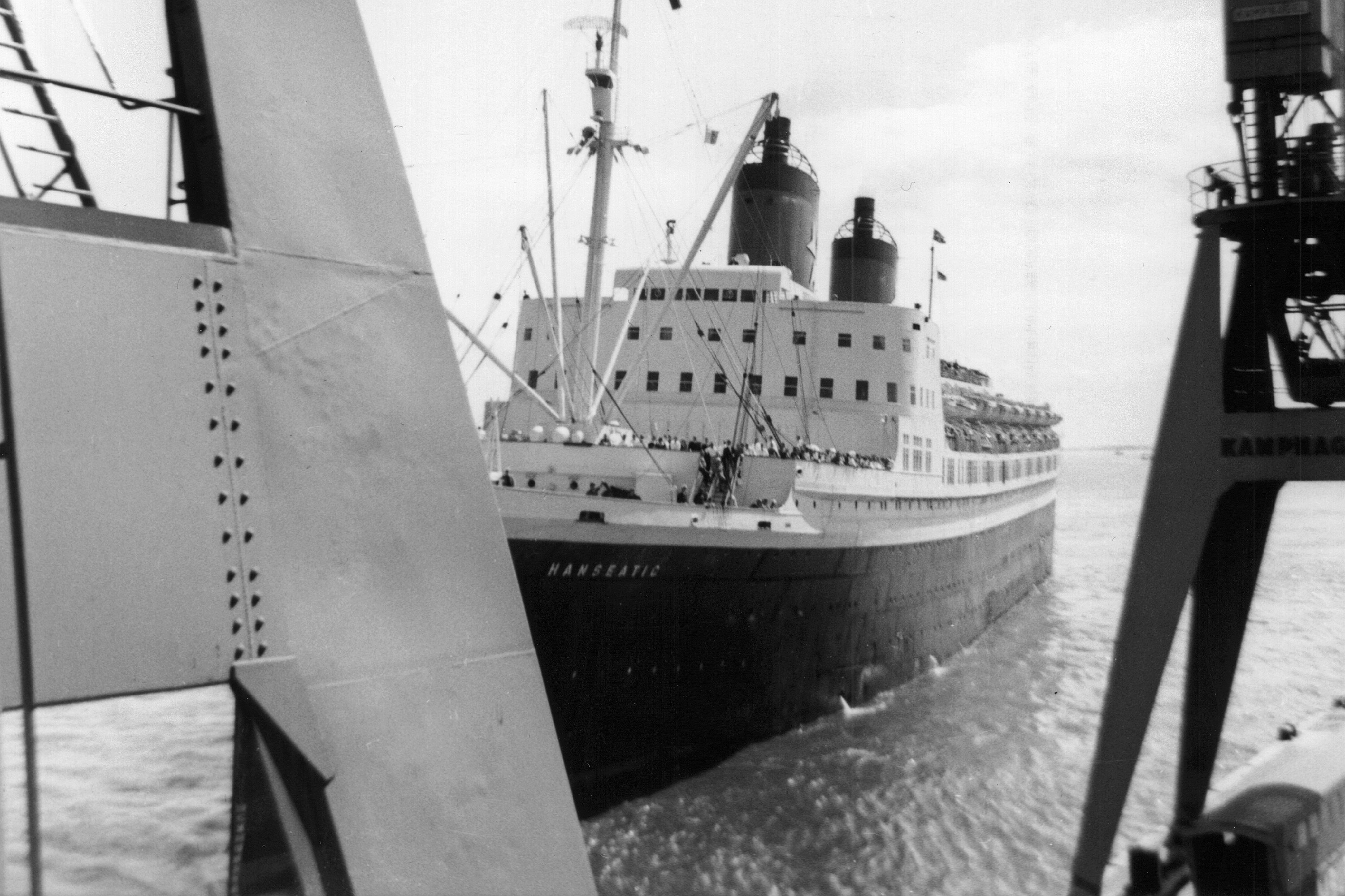 Hanseatic entering the port of Cuxhaven